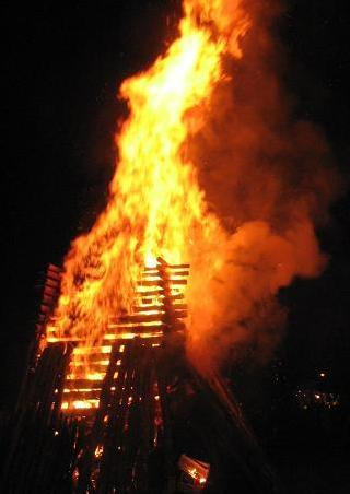 „Easter-fire“ (german: Osterfeuer) in Gröben, part of Ludwigsfelde in the Landkreis (rural district) Teltow-Fläming, Brandenburg. „Osterfeuer“ is an old custom in some parts of germany.